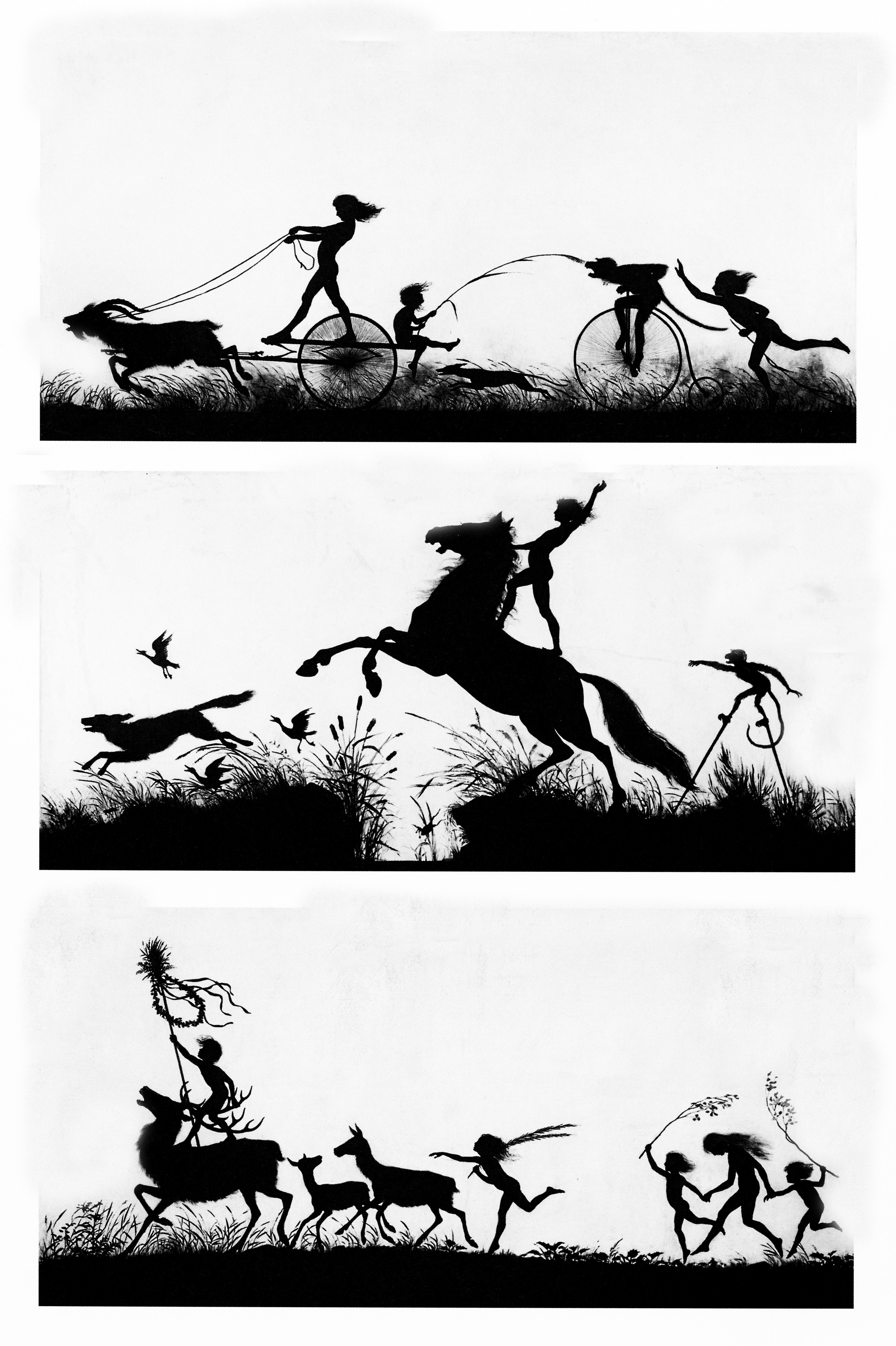 Template:Karl Wilhelm Diefenbach (1892) from: per aspera ad astra